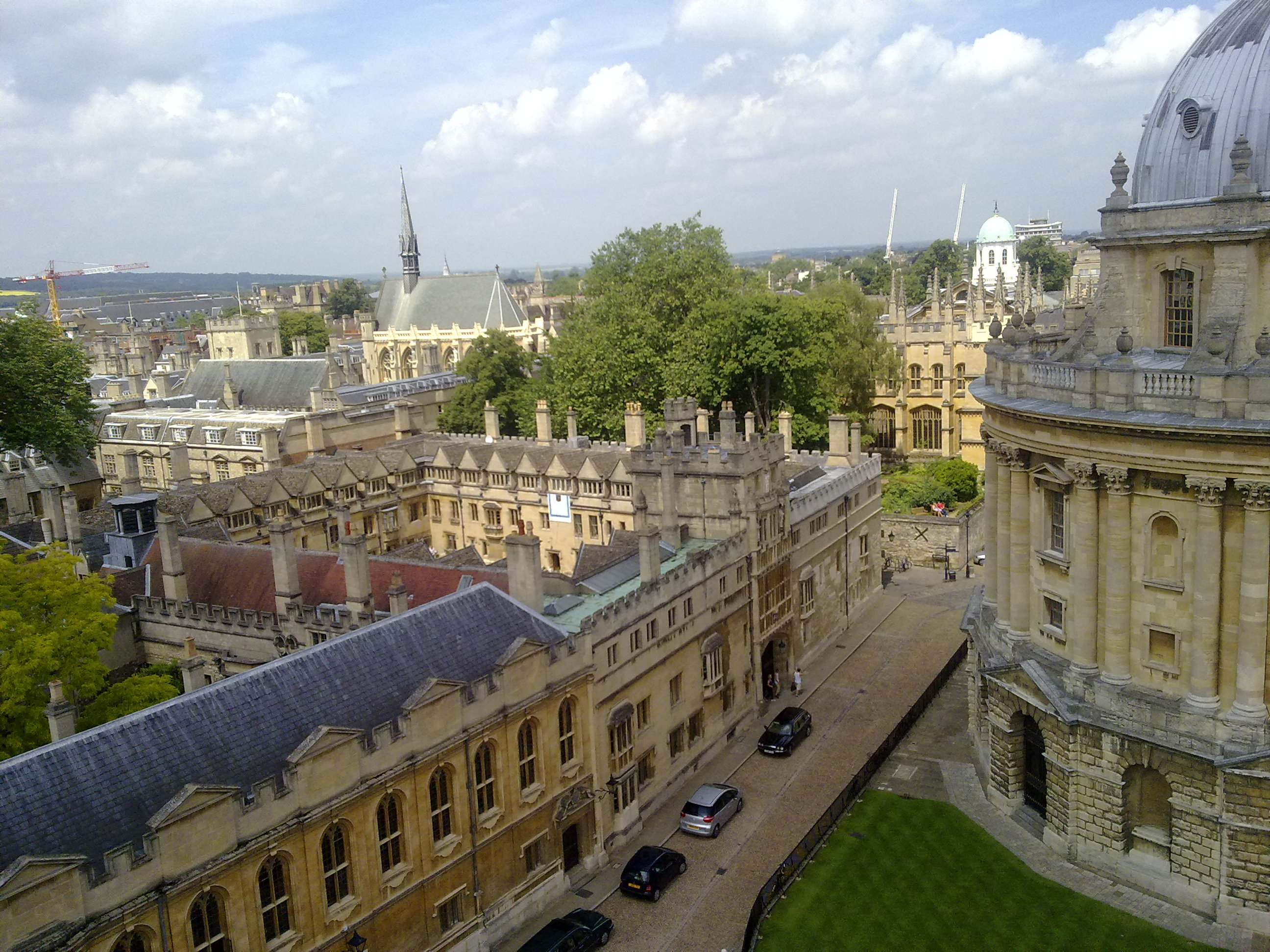 Brasenose College viewed from the south east (St Mary's, in High Street).